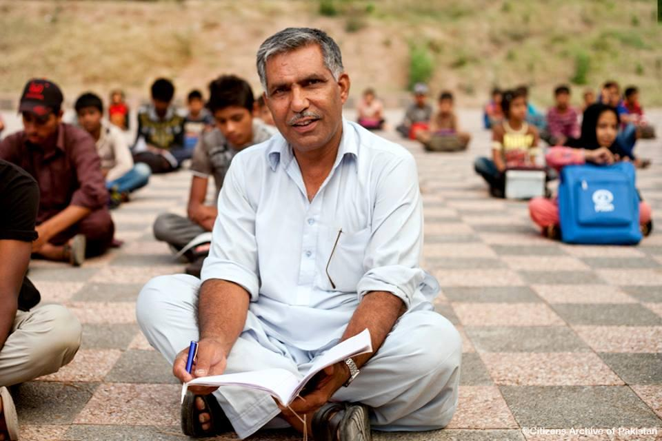 Master Ayub sitting among his students at a park in Islamabad